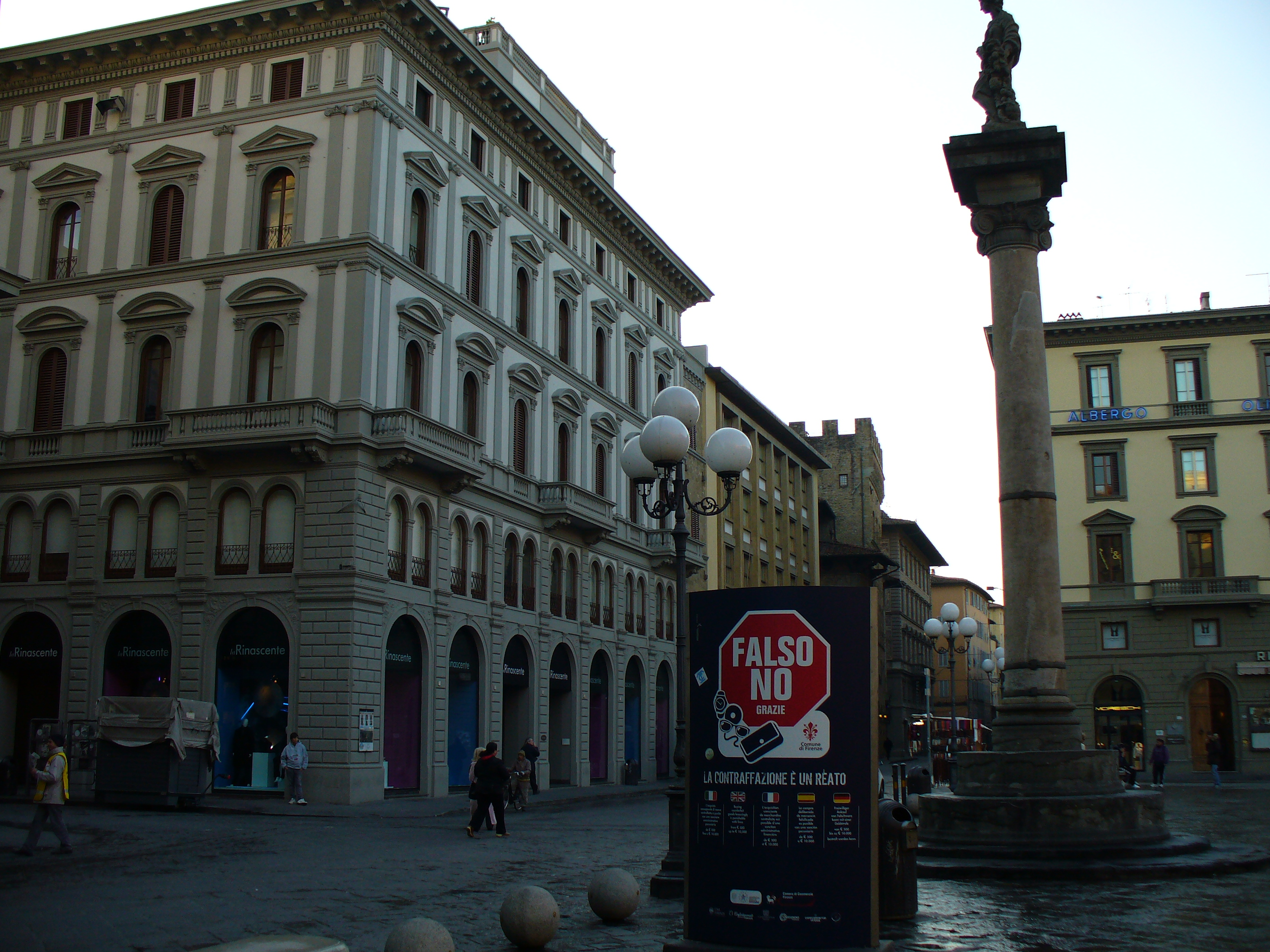 Piazza della Repubblica in Florence